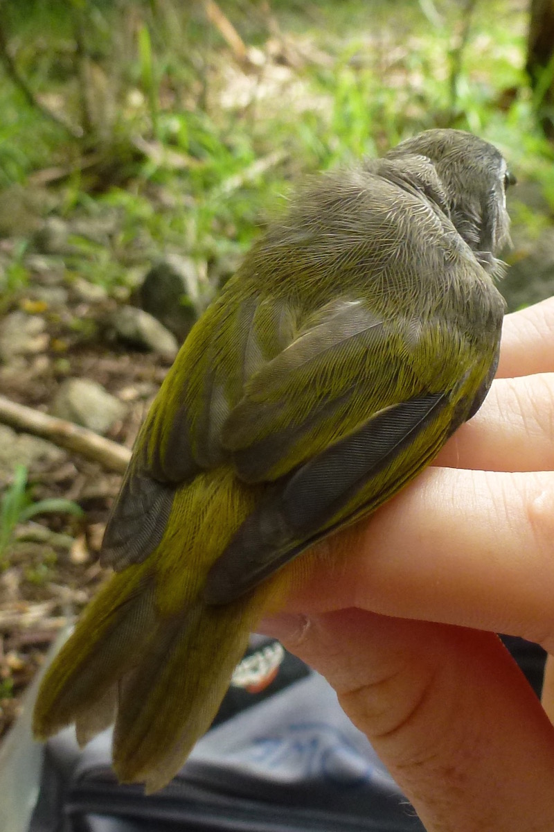 greenish feathers of the Back